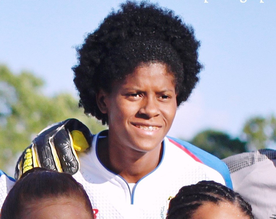 Natalia Mills representing Panama against Trinidad and Tobago at the 2018 CONCACAF Women's Championship on Oct. 4, 2018.